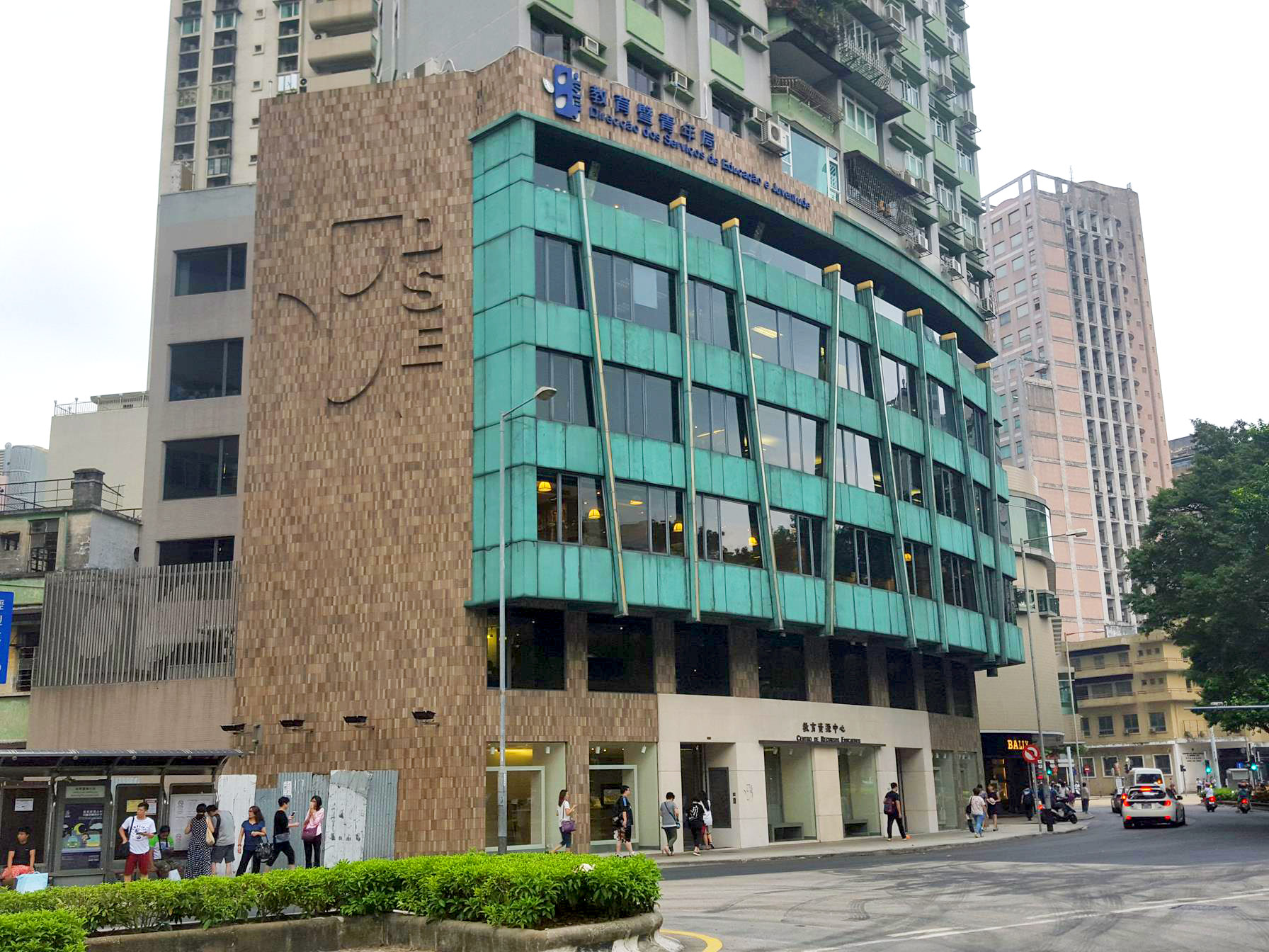 Education Resource Centre